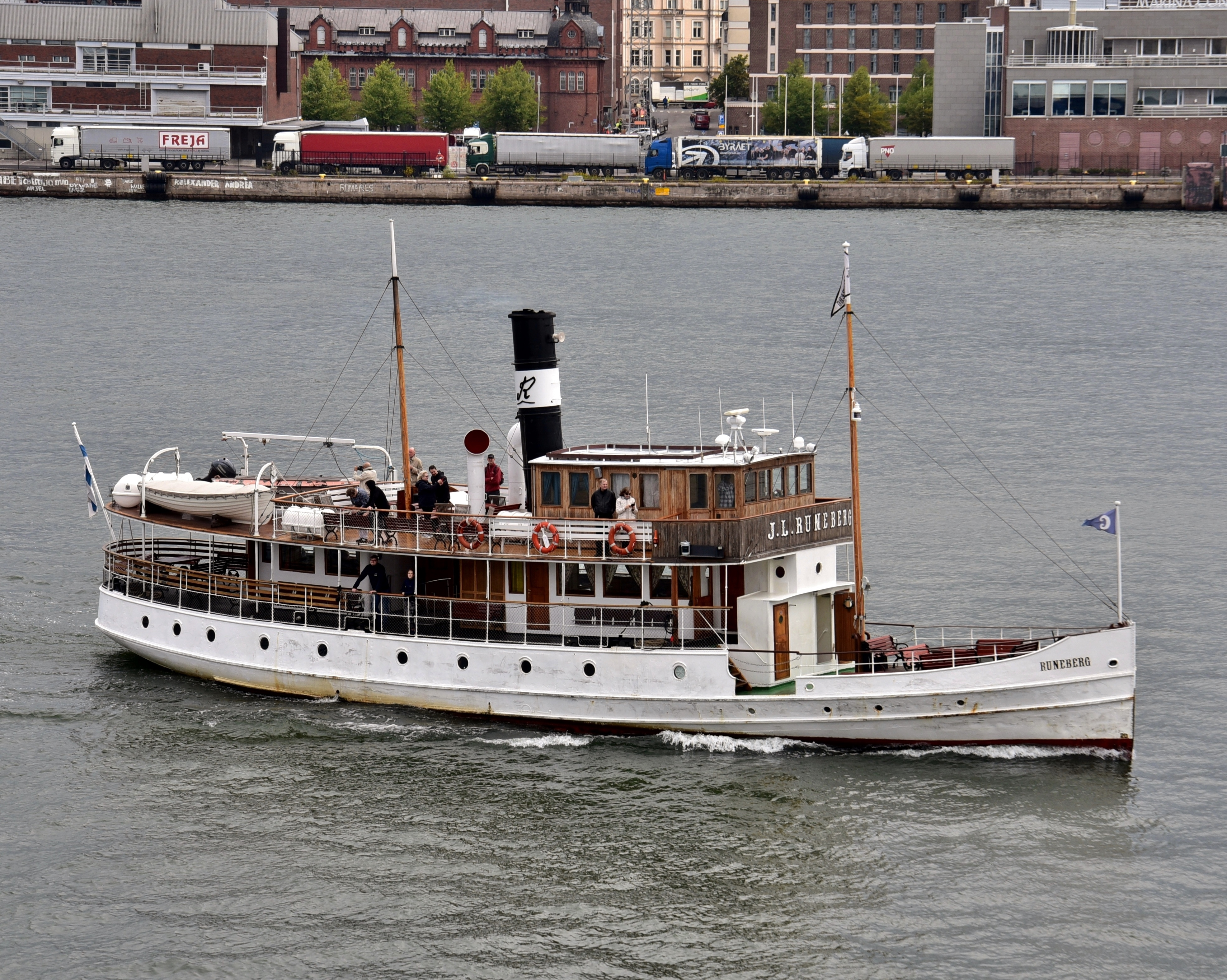 The cruise ship J. L. Runeberg, in South Harbour, Helsinki